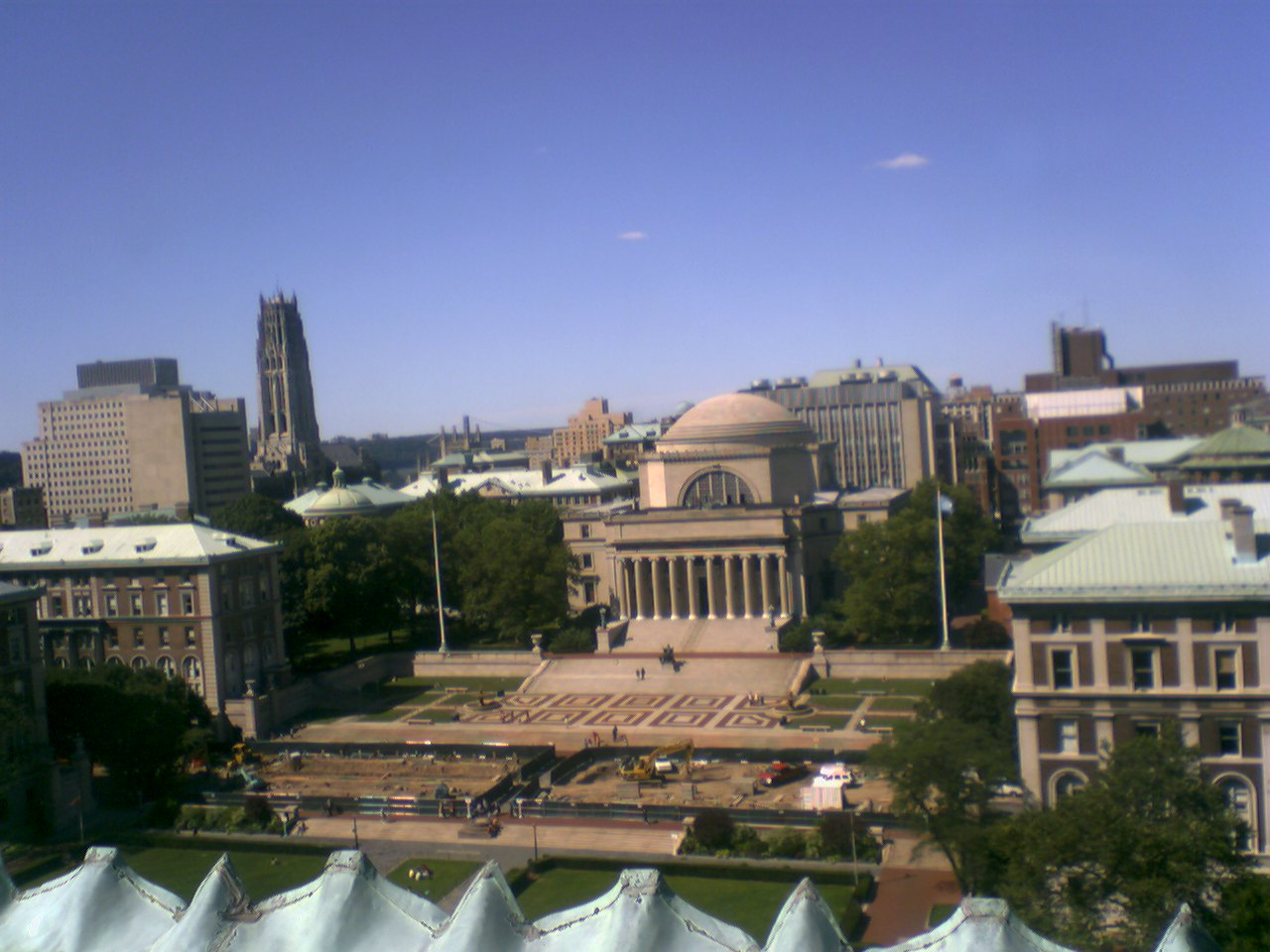 View of Columbia University